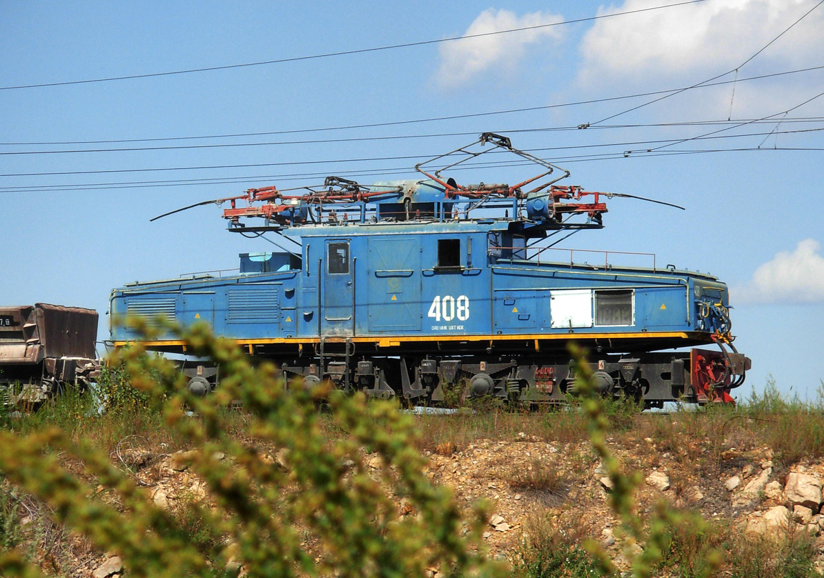 Industrial electric locomotive EL2